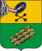 Pudozh (Karelia), coat of arms (1788)